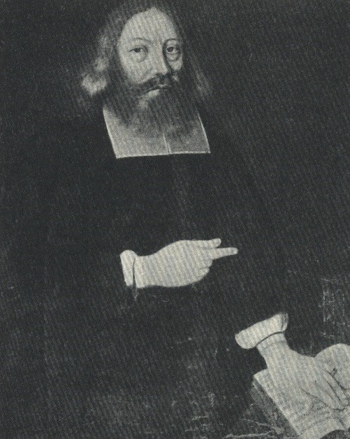 Finnish clergyman and educator Gabriel Peldan (1690-1750)